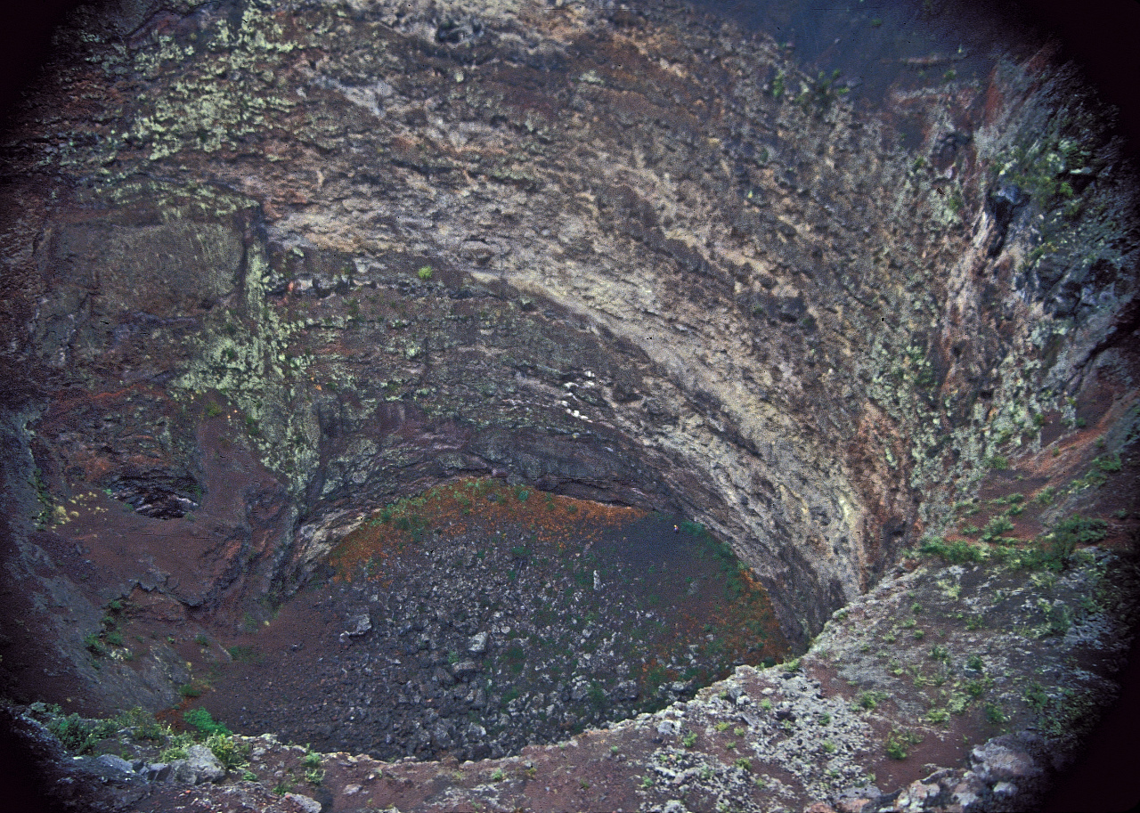 This is a pit crater on Hualalai volcano in Hawaii, over 100m deep. But it is very unusual as the opening visible on the left side is the top of an open vertical volcanic conduit, and the total depth is 268m. Note the person on the bottom, towards the far wall, right of center, with a white helmet.